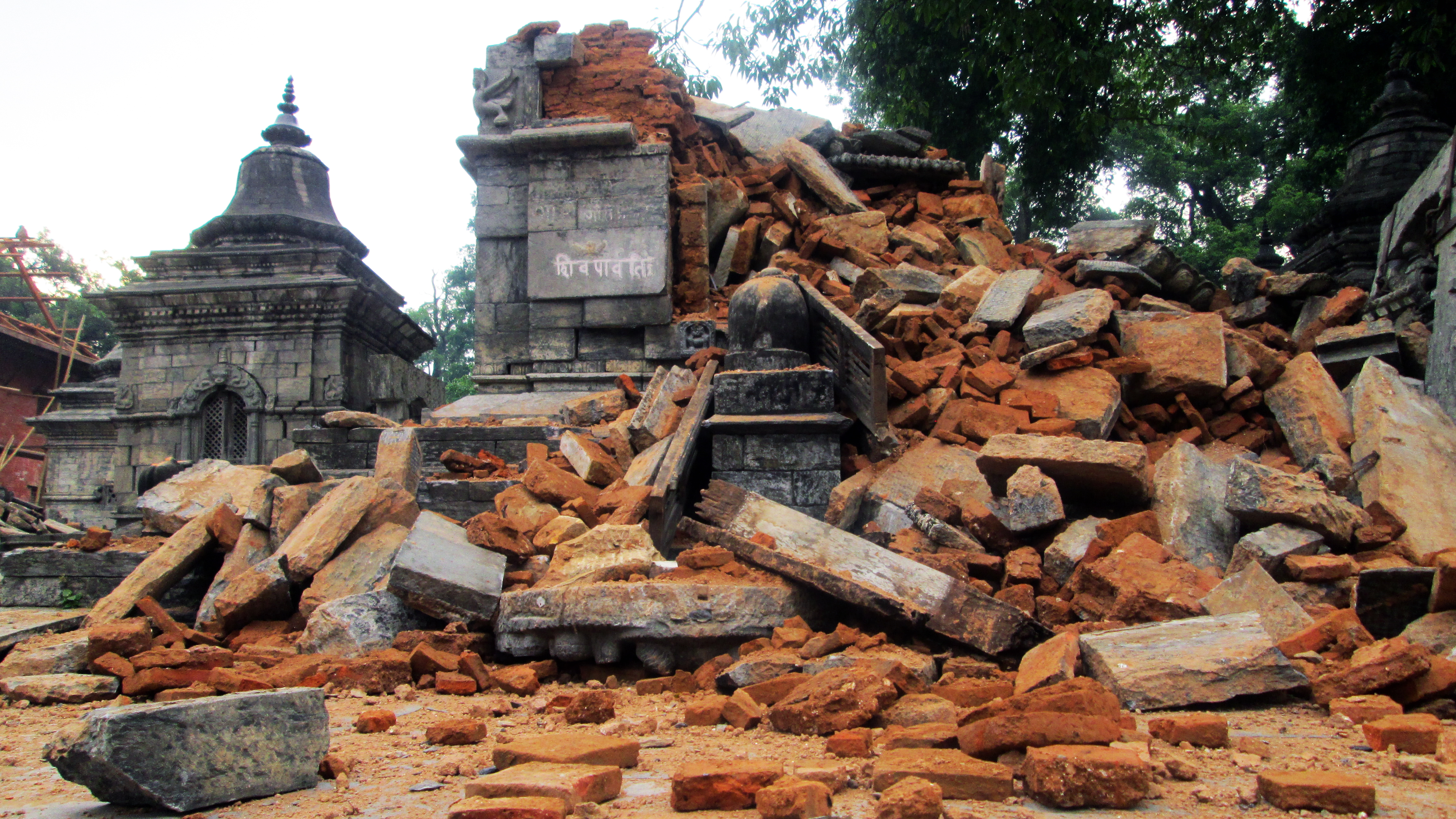 Destruction of Dewal at Pashupatinath Temple Area during 2015 Earthquake in Nepal